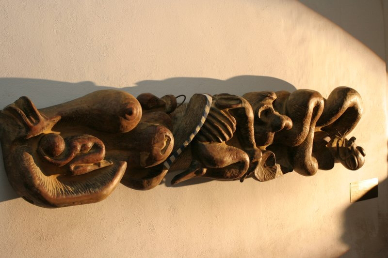 Lubo Kristek: Život, dřevoplastika